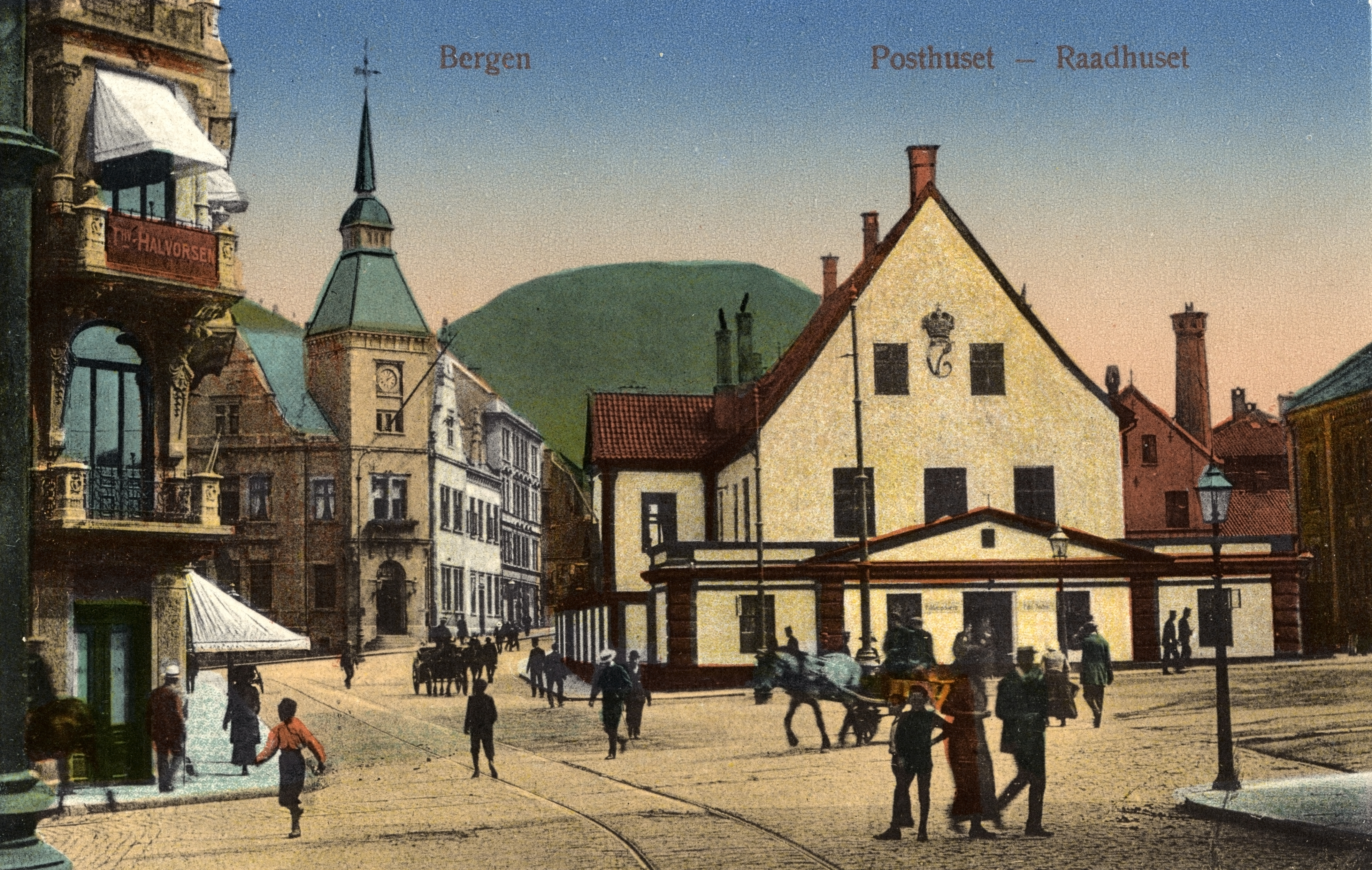 Photo from Bergen, Norway around 1909. The city hall in front (to the right). The old post office to the left in the background. Erected 1892–96. Demolished 1965. Architect: Peter Dybwad